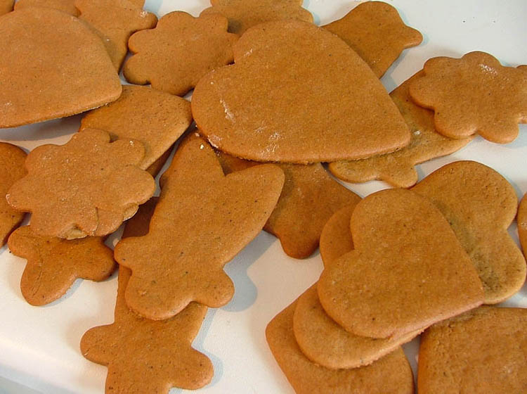 Some freshly baked gingerbread (or gingersnaps). Photograph and the gingerbread by me, Jonik. December 25, 2004 in Espoo, Finland.